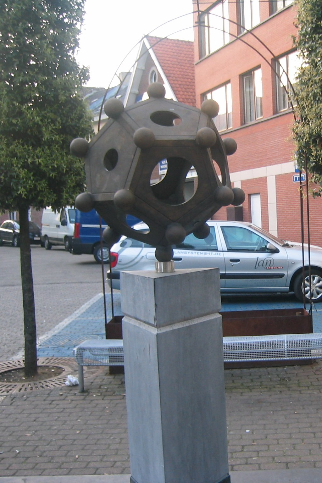 Photograph taken of the statue 'Dodecaëder' in Tongeren (Sculptural duplication of mysterious "Roman dodecahedron" artefacts)